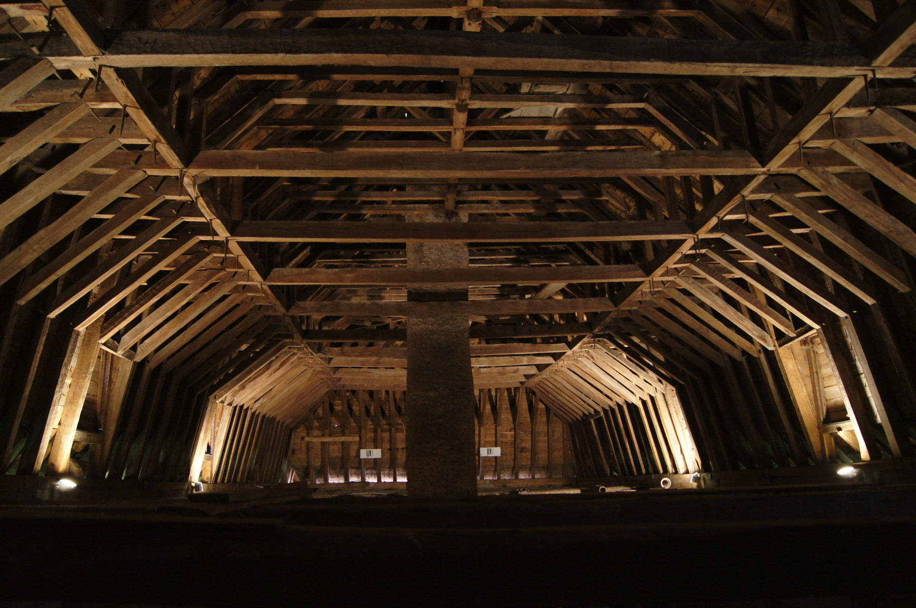 View of the roofs supporting structure in the central part of the castle of in Lot in France.